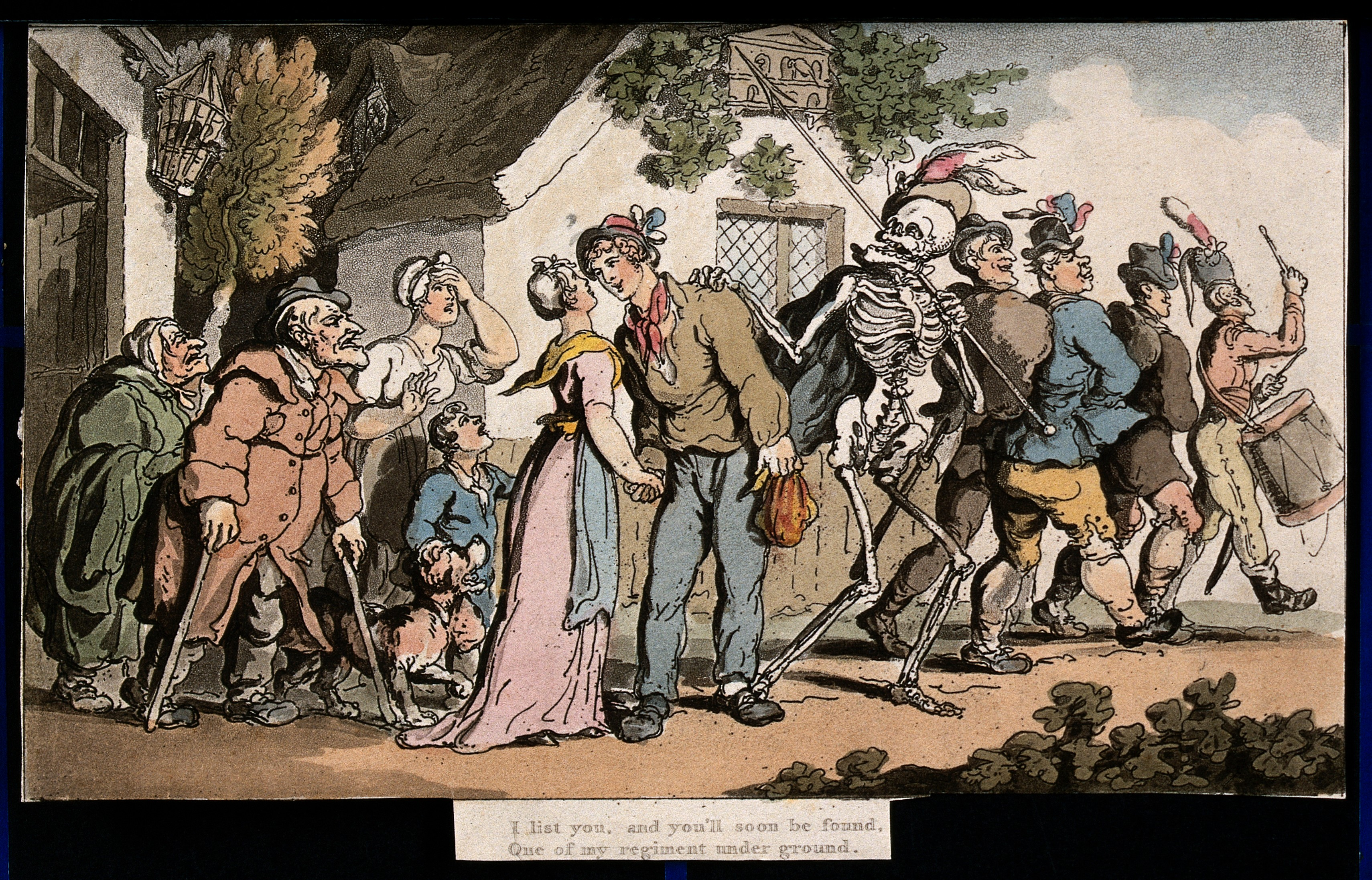 The dance of death: the recruit. Coloured aquatint by T. Rowlandson, 1816. Iconographic Collections Keywords: Thomas Rowlandson